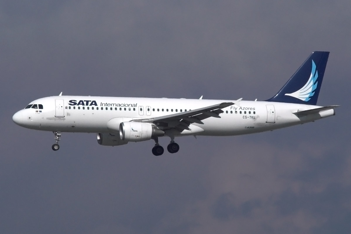 SATA Airbus A320-200 CS-TKL